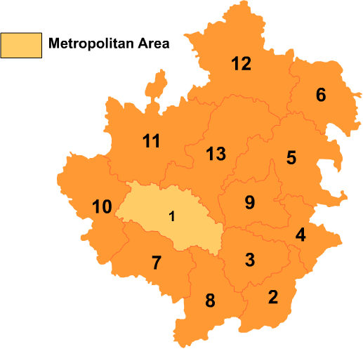 Map of Ngawa in Sichuan province